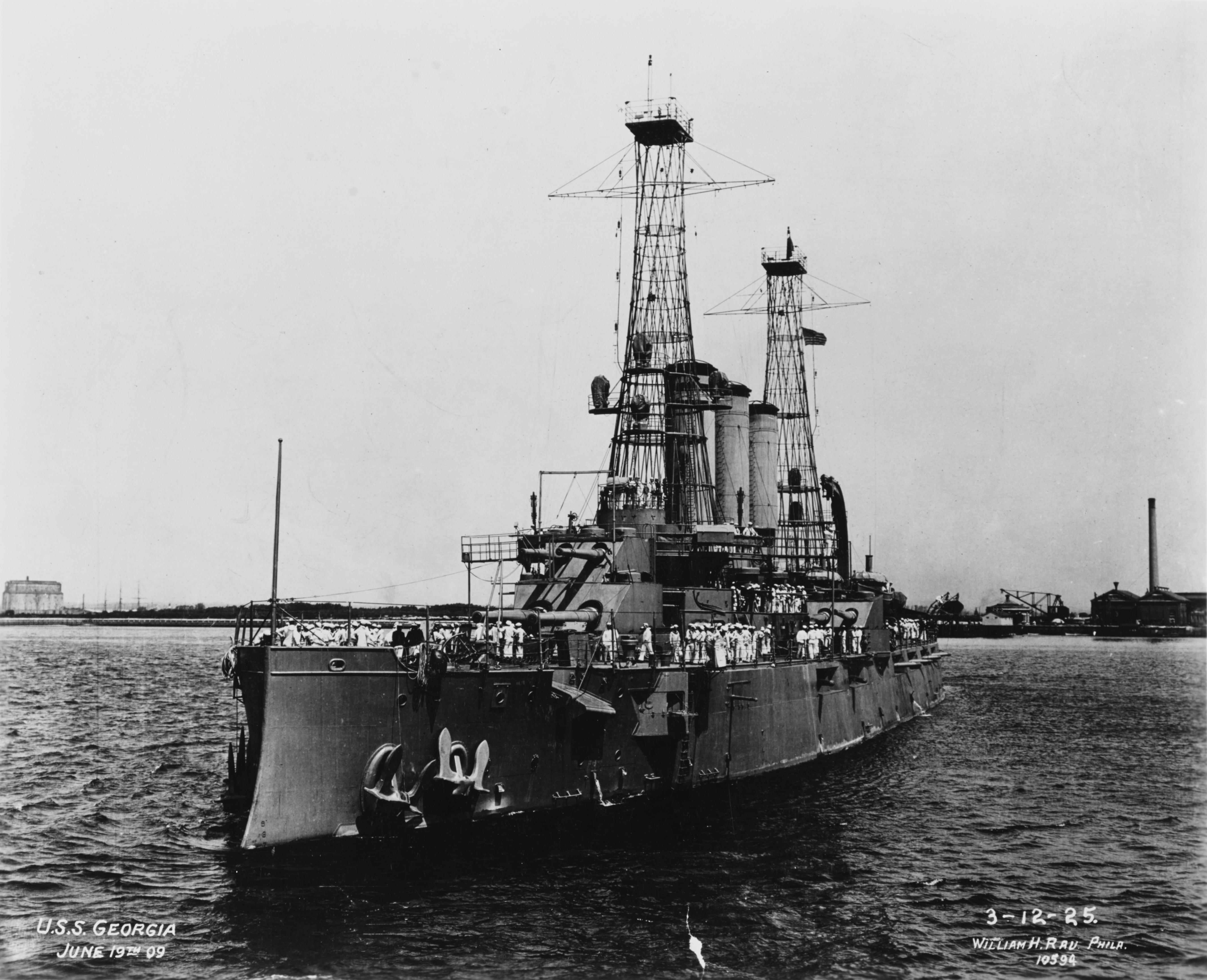 (Battleship # 15) Off Philadelphia, Pennsylvania, 19 June 1909, after modernization with cage masts. Photographed by William H. Rau. U.S. Naval History and Heritage Command Photograph.